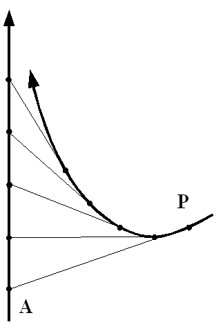 Curve of pursuit, simple, y(x), black and white